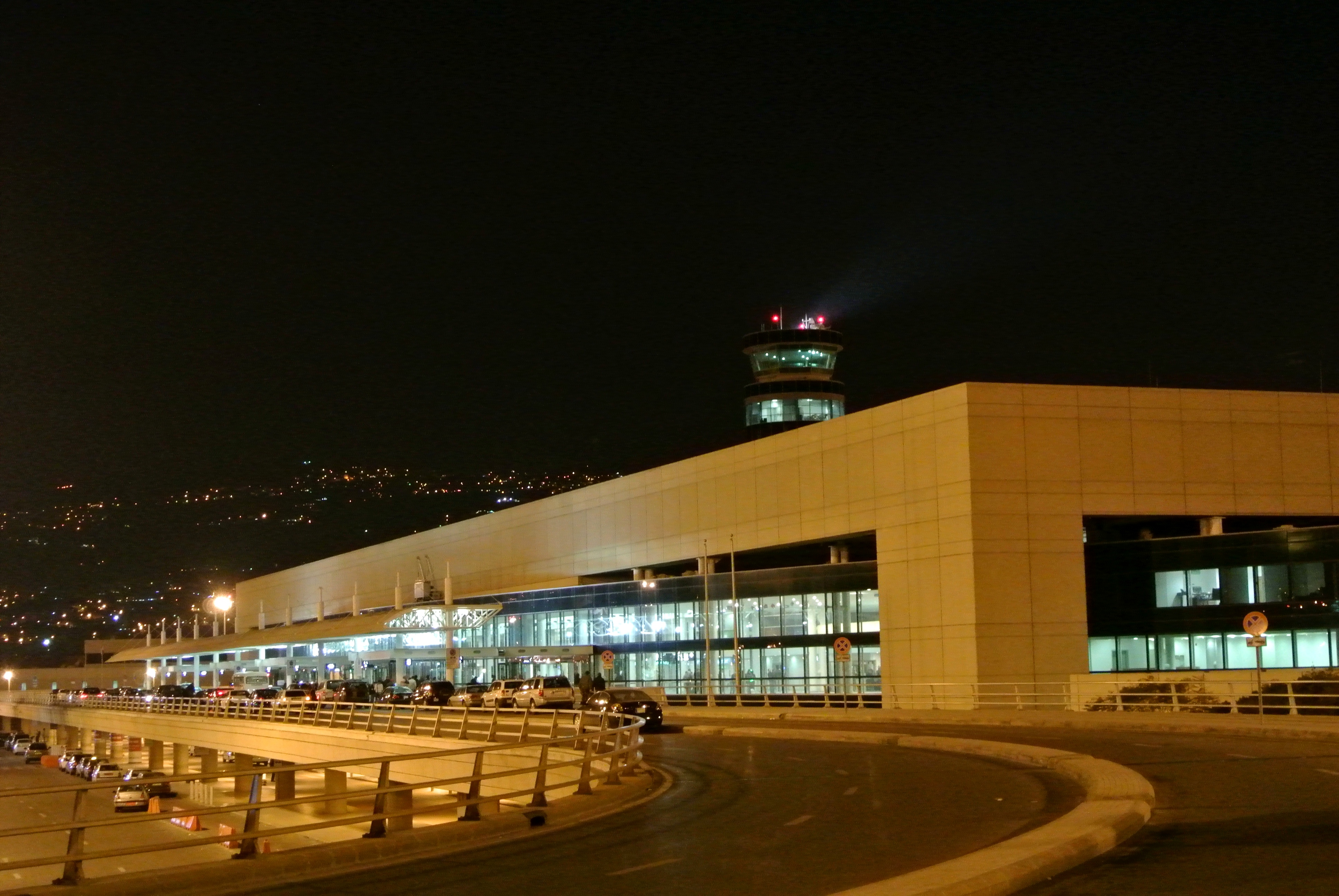 Rafic Hariri International Airport by Night